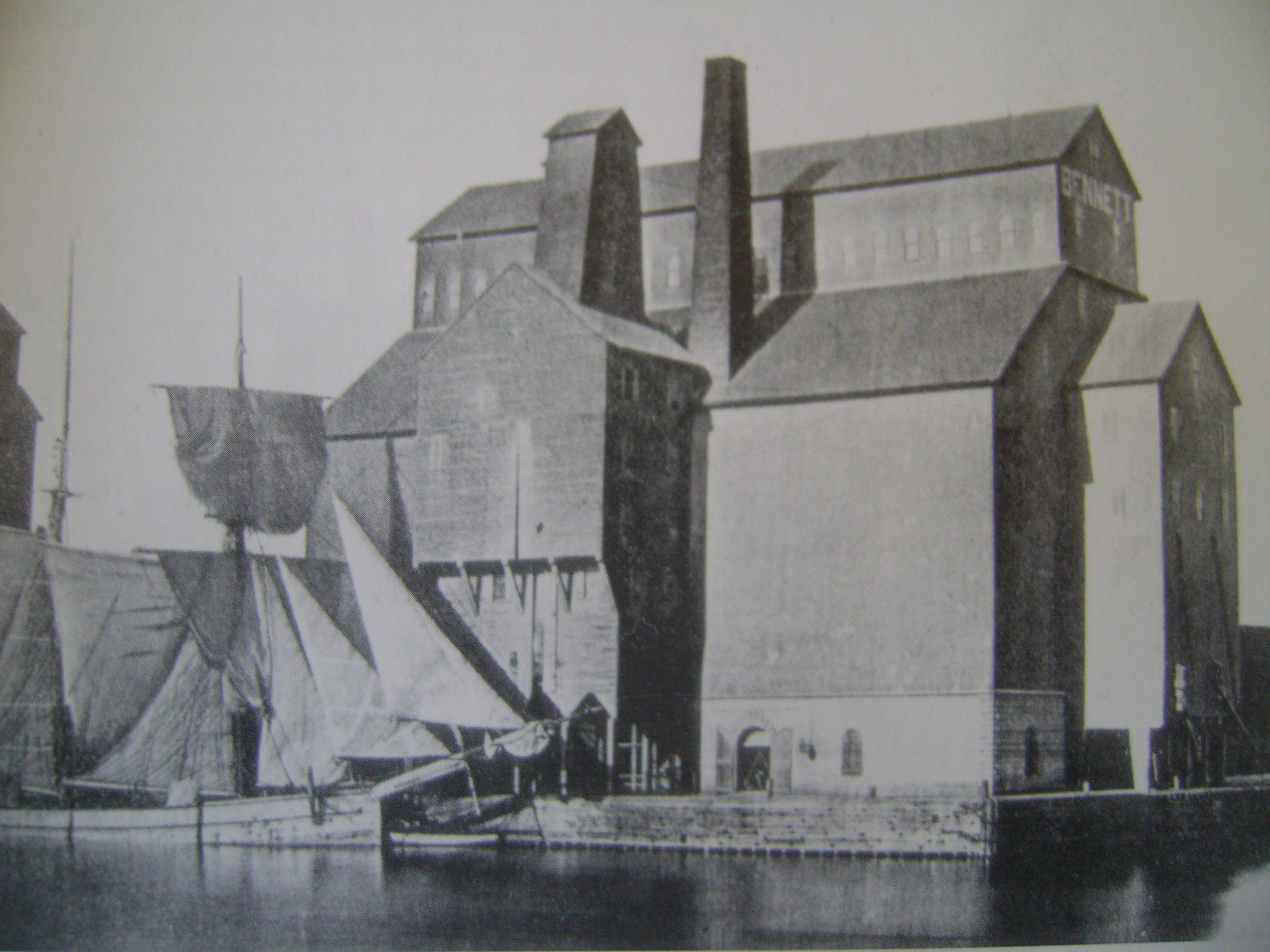 Bennett Elevator in Buffalo, New York, 1912